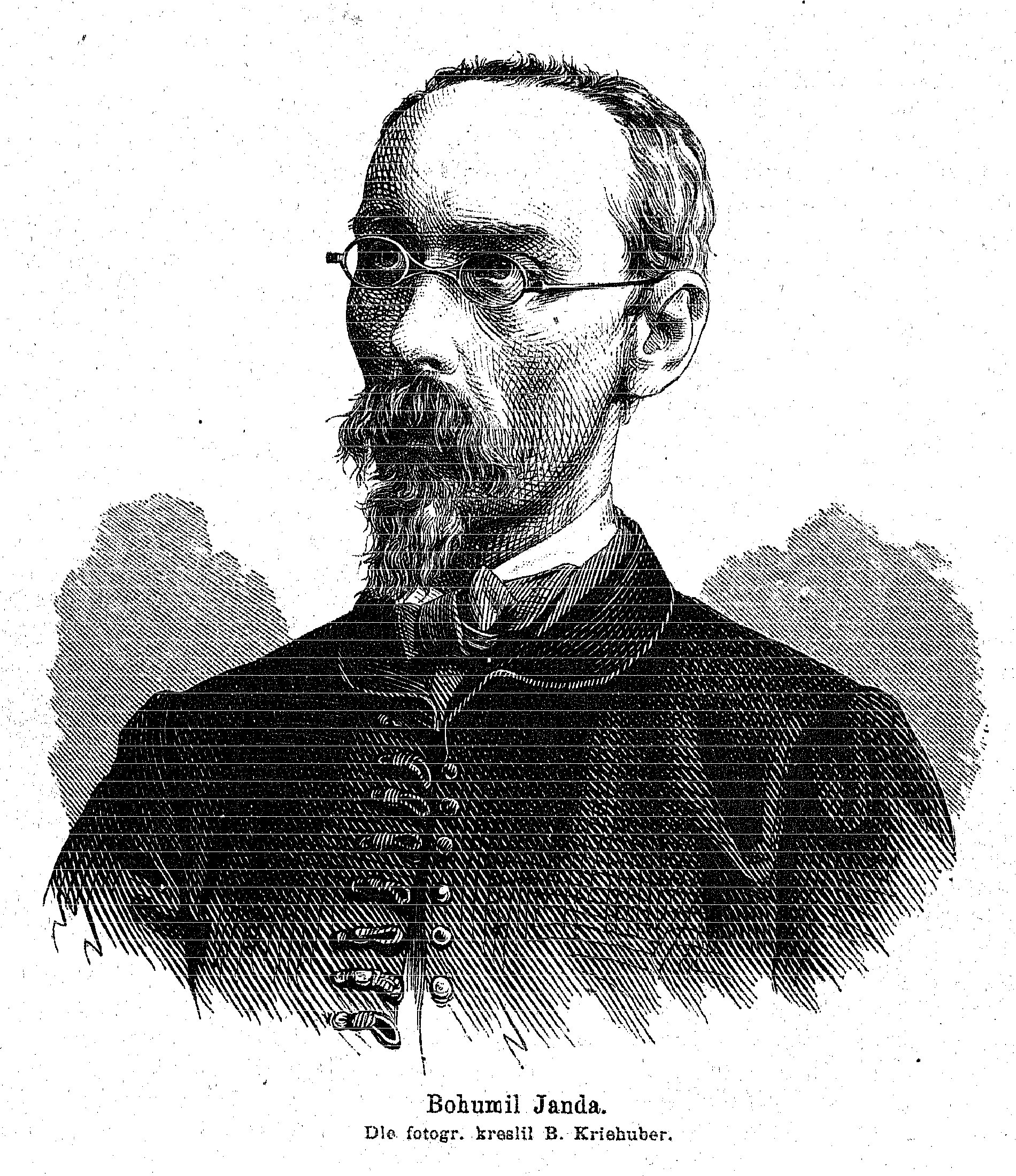 Portrait of Bohumil Janda Cidlinský (1831 - 1875), Czech poet.